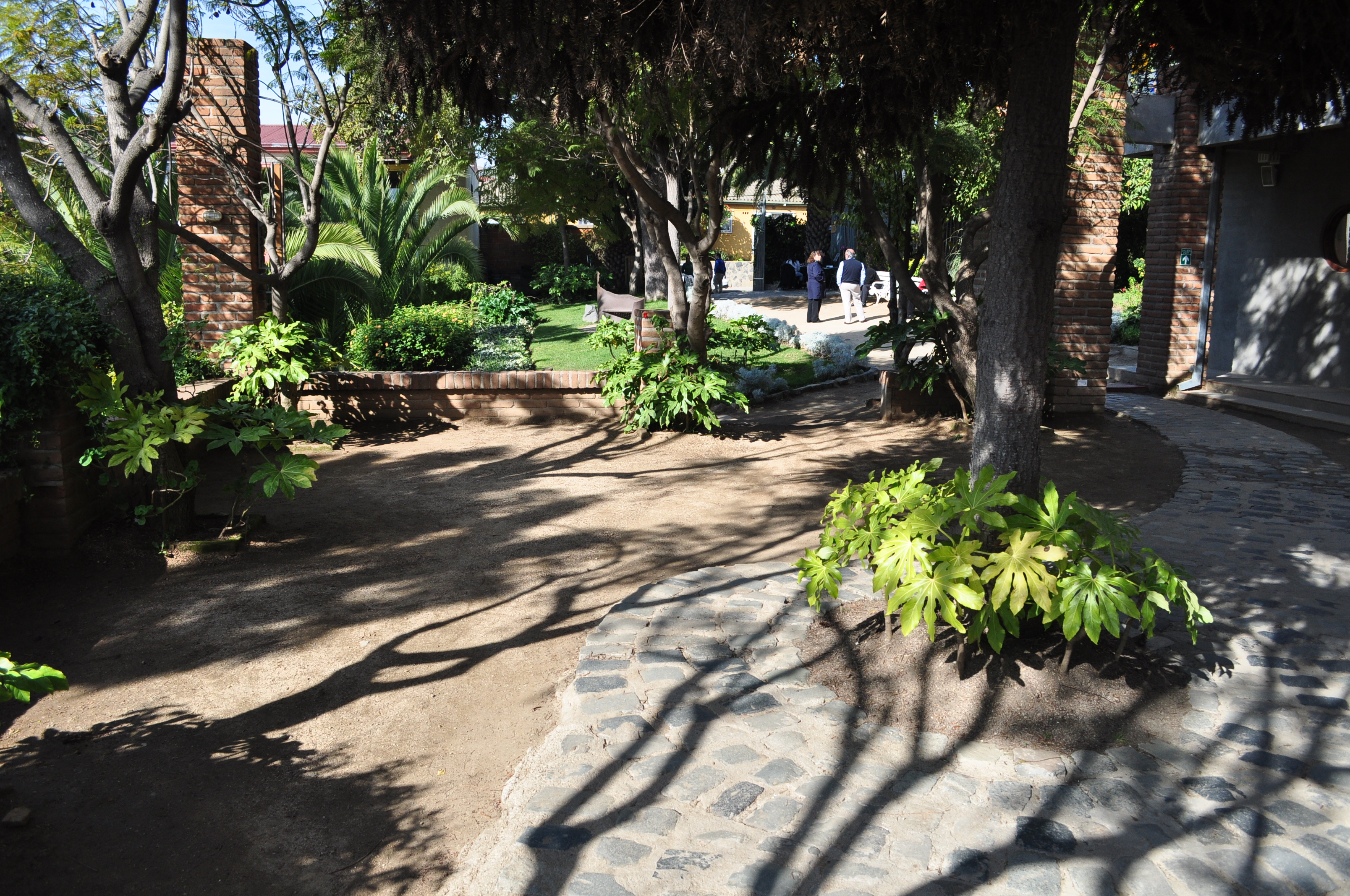 Plaza externa This is a photo of a national monument in Chile: 2206